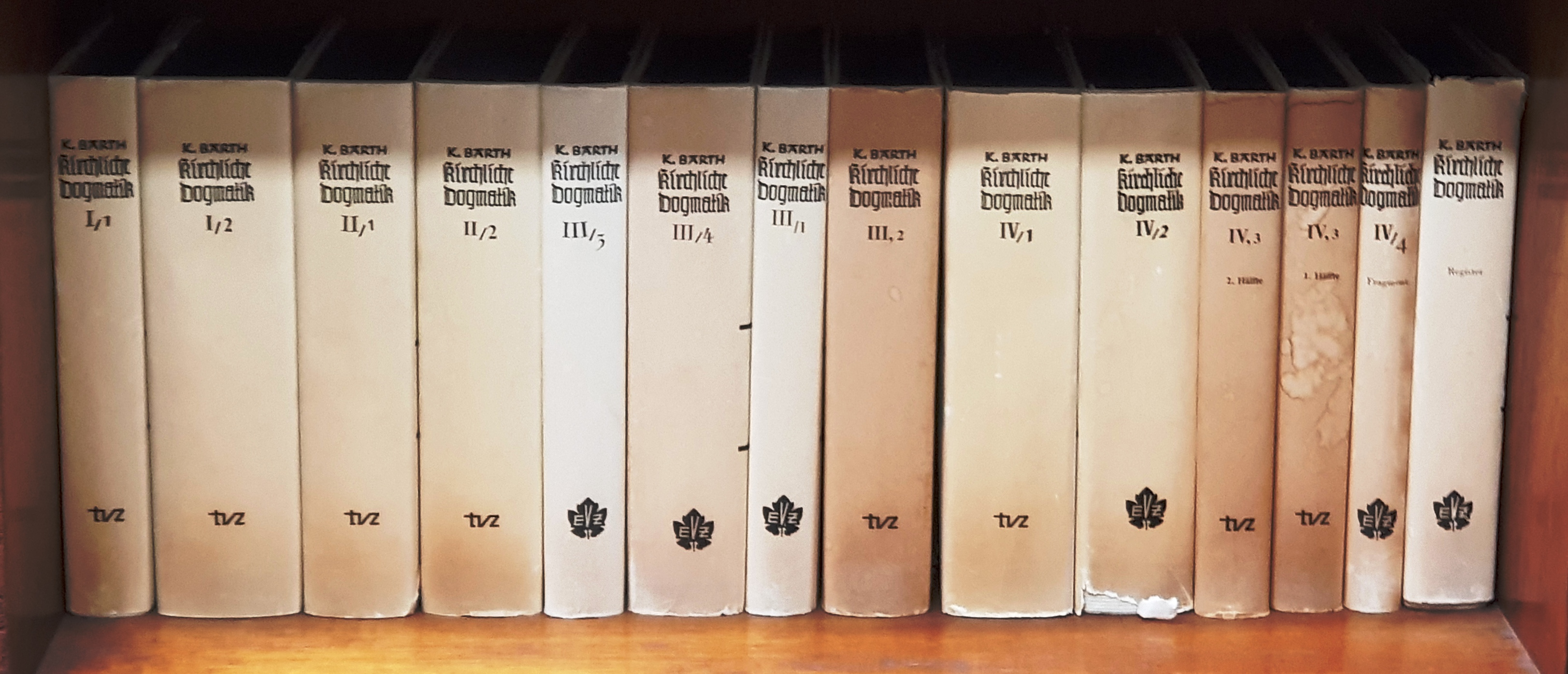 Karl Barth's Kirchliche Dogmatik